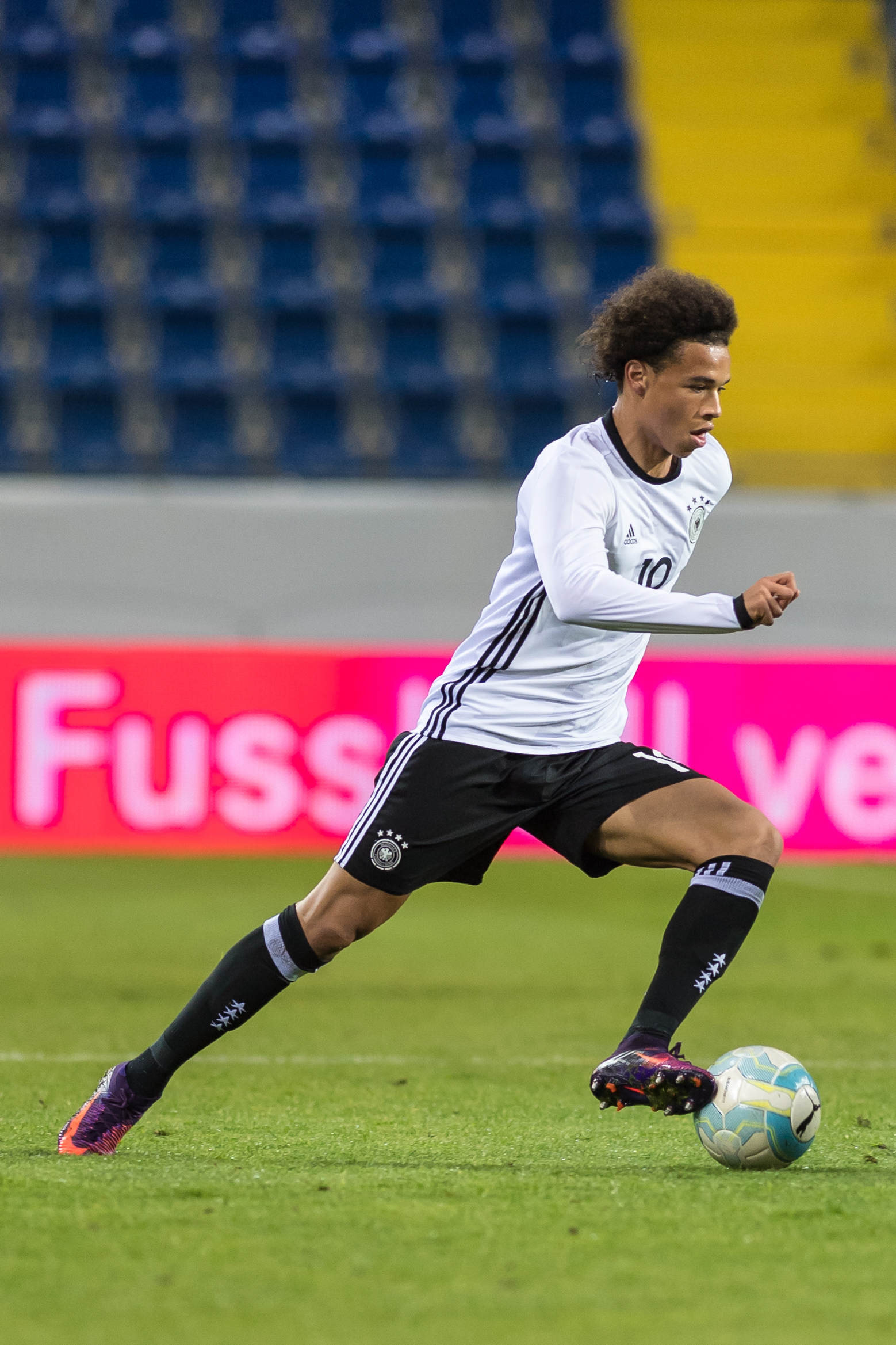 European Under-21 Championship 2017 Qualifying Round, Austria vs Germany, 11/10/2016, St. Polten